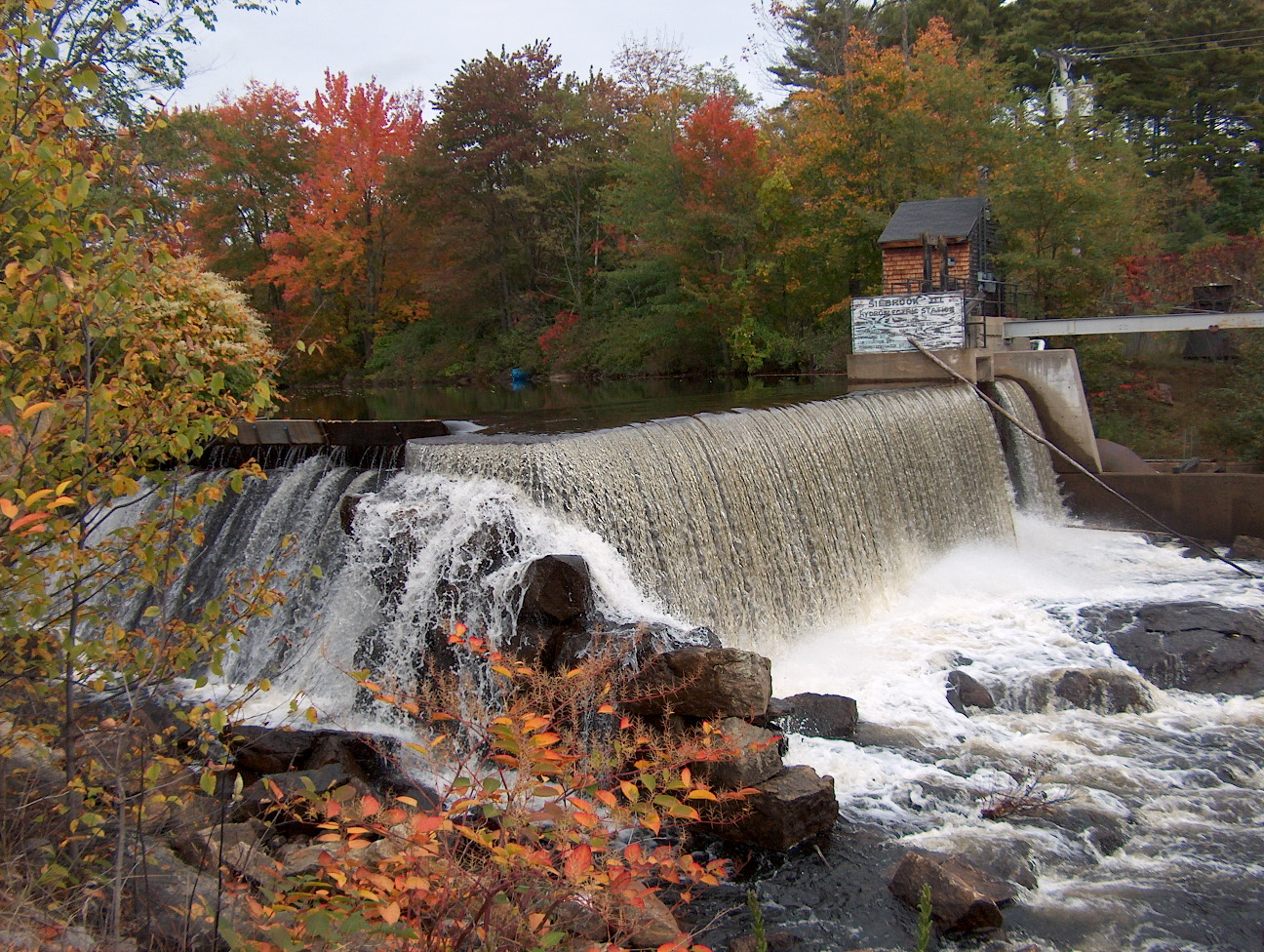 The Branch River in Union, New Hampshire. Photo by Ken Gallager, Oct. 3, 2008.